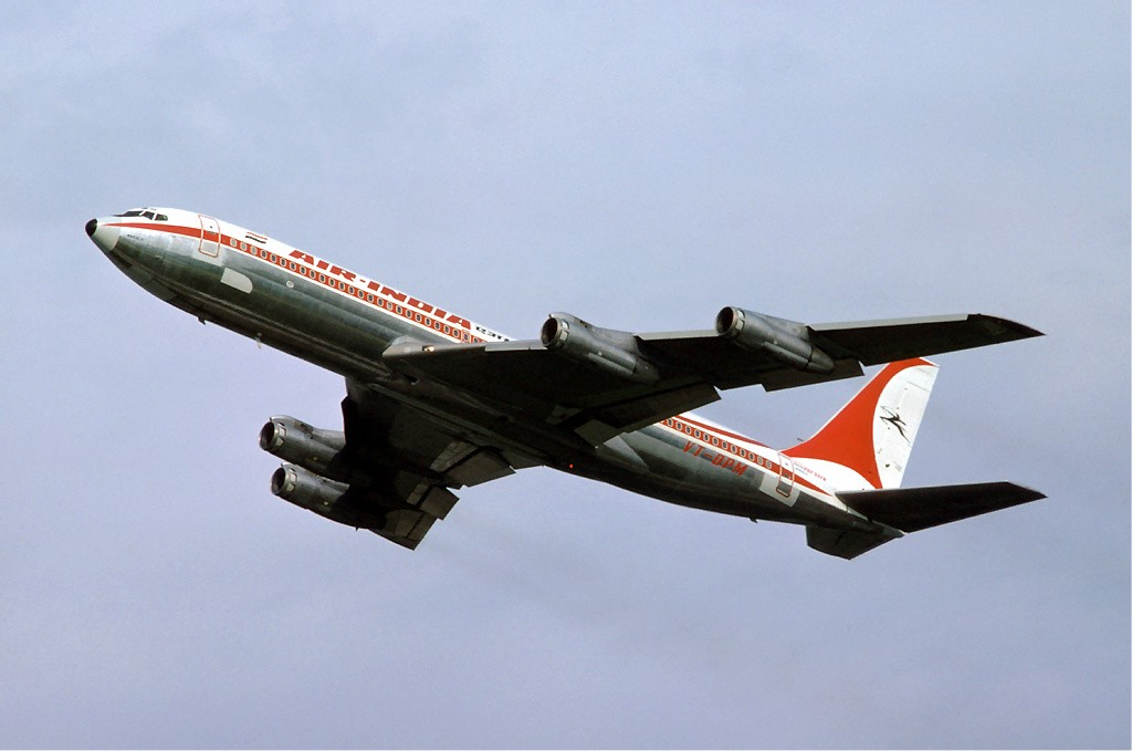 A Boeing 707 of Air India at Basle Airport